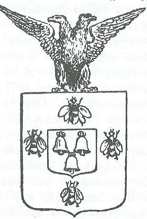 coat of arms of Melissinos